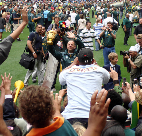 Man of the moment: Jake White, proudly greets a sea of Springbok supporters at Newlands Rugby Stadium.